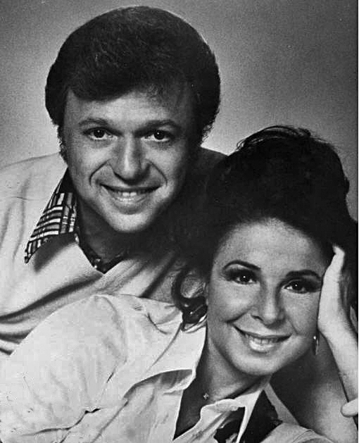 Publicity photo of Steve Lawrence and Eydie Gorme/